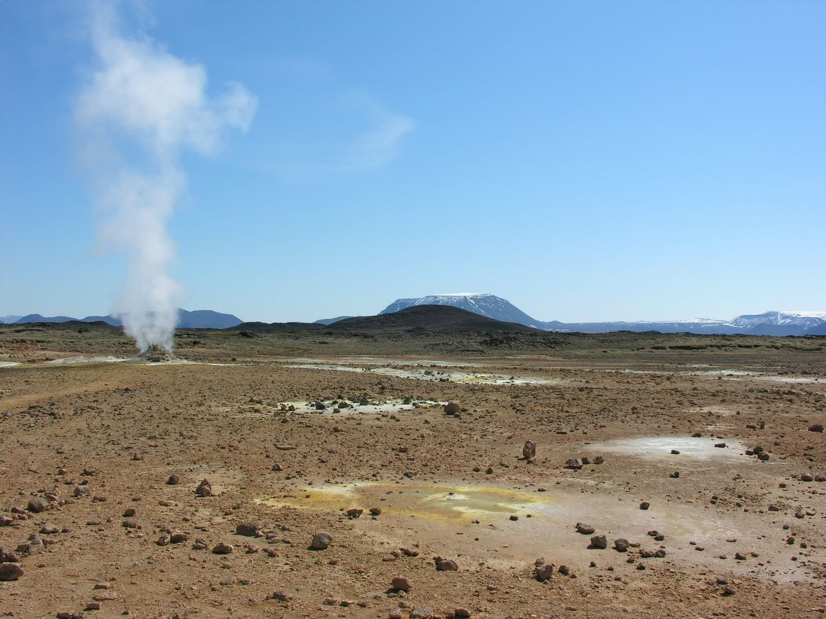 Námafjall is a high-temperature geothermal area near Myvatn in Iceland